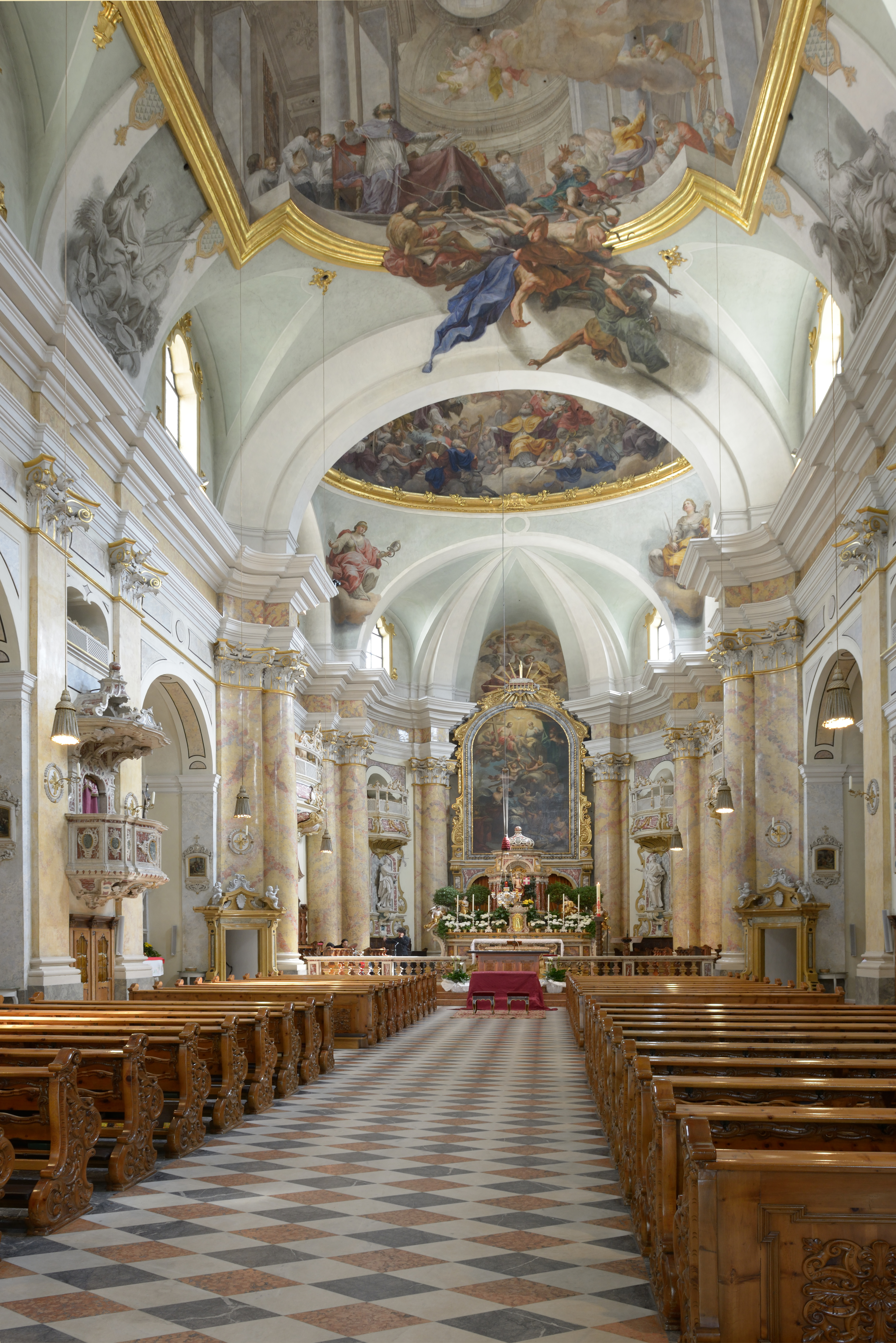 Church in Bozen-Gries